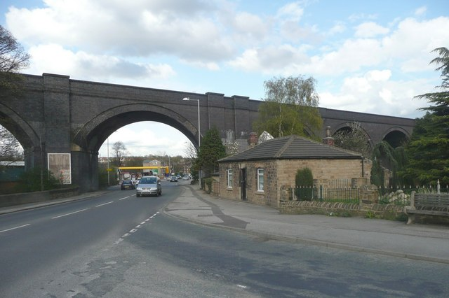 Toll house, Middlestown, Sitlington. This is aligned with the original route of the turnpike road, along Sandy Lane, although no doubt it was also used for the new line, the present A642, still called New Road. The viaduct carried the now closed Midland Railway line between Dewsbury and Royston Junction.